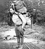 American forester, author and wilderness advocate Bob Marshall (1901-1939) in camping gear. Unknown date and location.